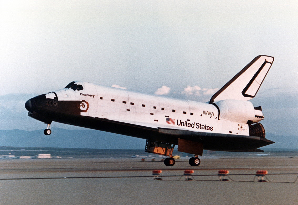 The title says it all. She landed at Edwards Air Force Base on September 5th, 1984. This was the first of her record 39 flights, which culminated in her final landing on March 9th, 2011. After a complete scrub down, she will be sent to the Smithsonian Institute in Washington, DC.